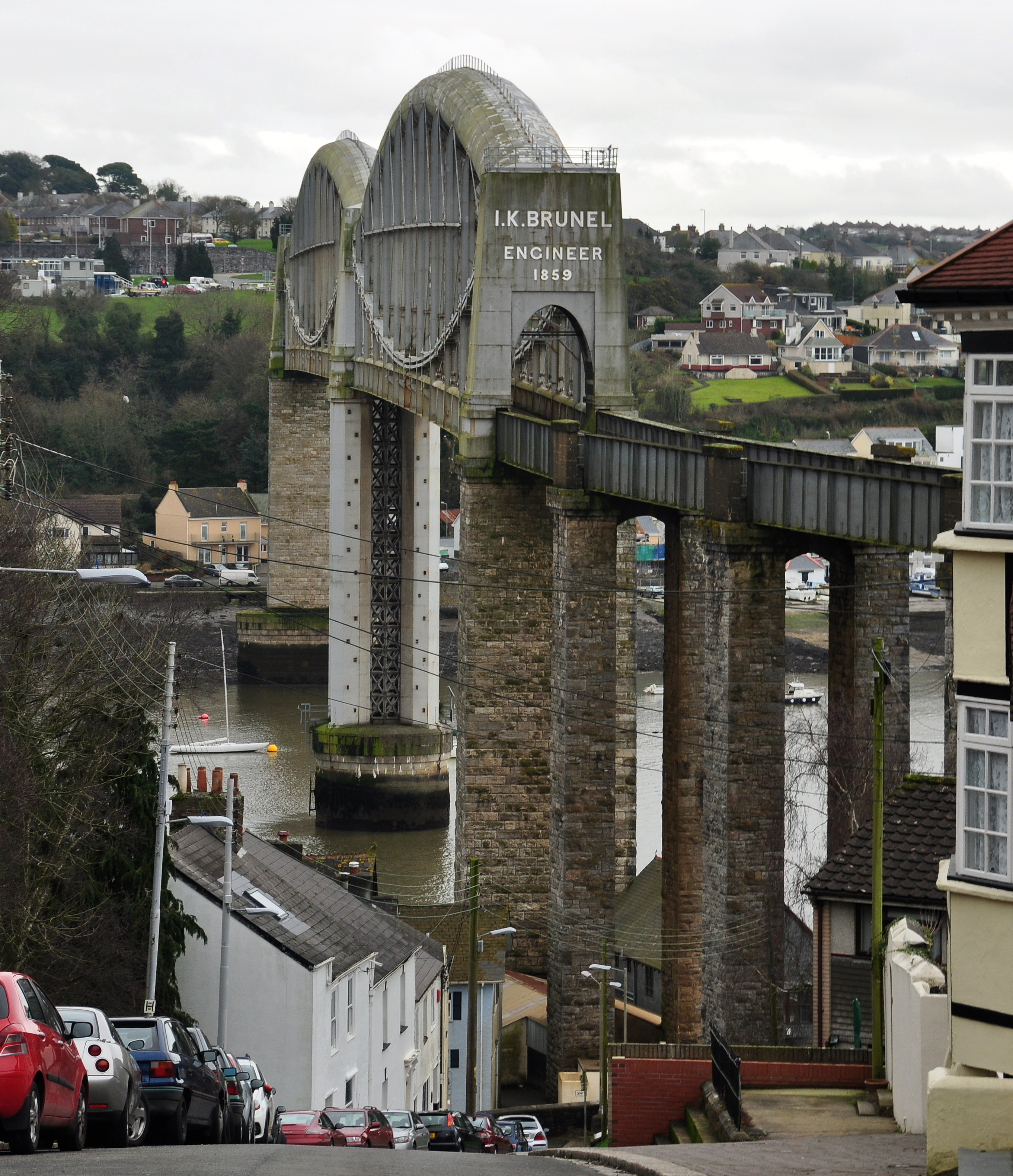 The Royal Albert Bridge across the River Tamar, seen from Lower Fore Street in Saltash, Cornwall.